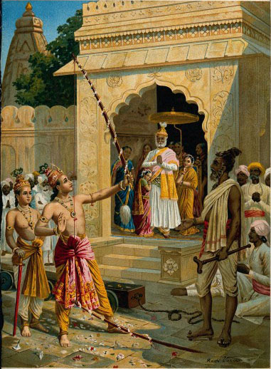 Rama breaking the bow to win Seetha as wife.